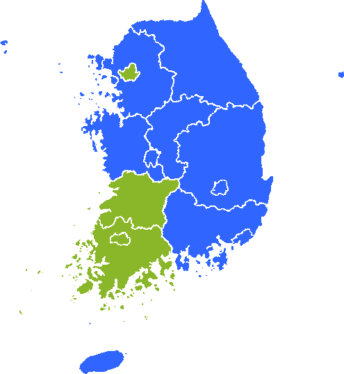 map of Provincial level division during the South Korean presidential election, 1992